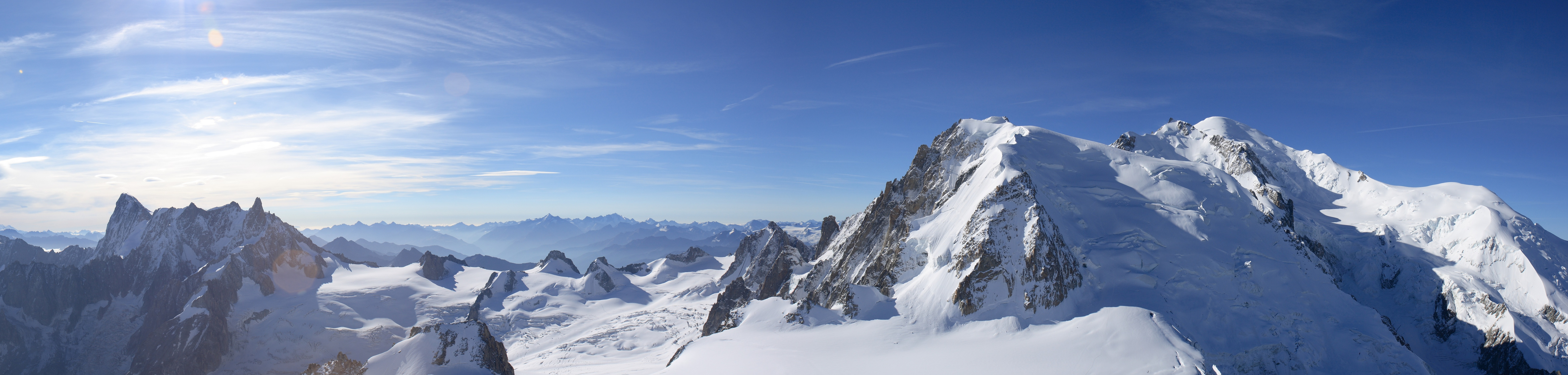 A panoramic view from top of Aiguille du Midi, looking toward east. The most remarkable summits are on the left side the Grandes Jorasses and the Dent du Géant and on the right side the three "Monts Blanc", the Mont Blanc du Tacul, the Mont Maudit and the highest one : the Mont Blanc.